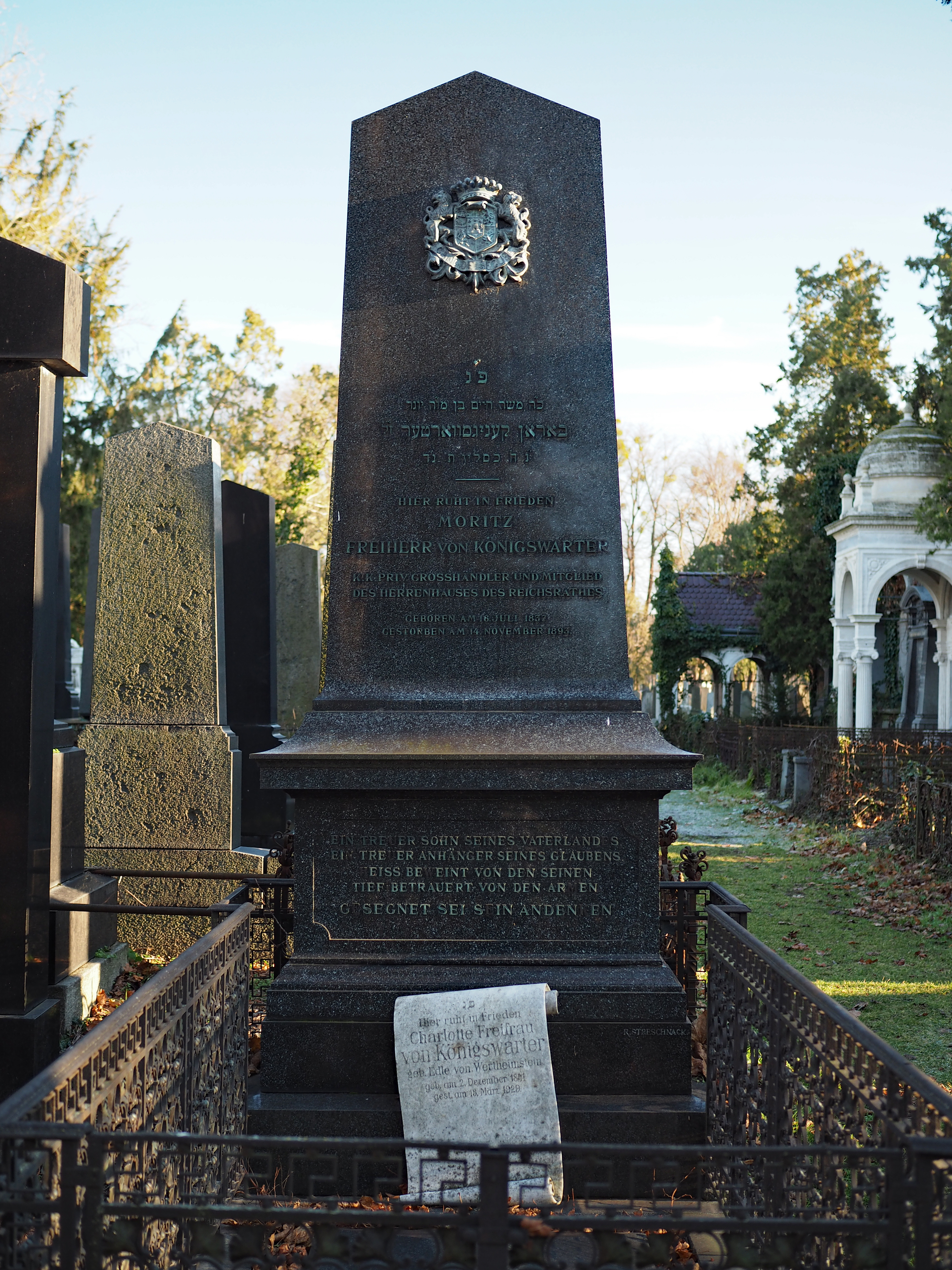 Grave of Moritz (Moriz) von Königswarter and Charlotte von Königswarter (née Wertheimstein) in the Old Jewish section of the Vienna Central Cemetery (5b/1/7)